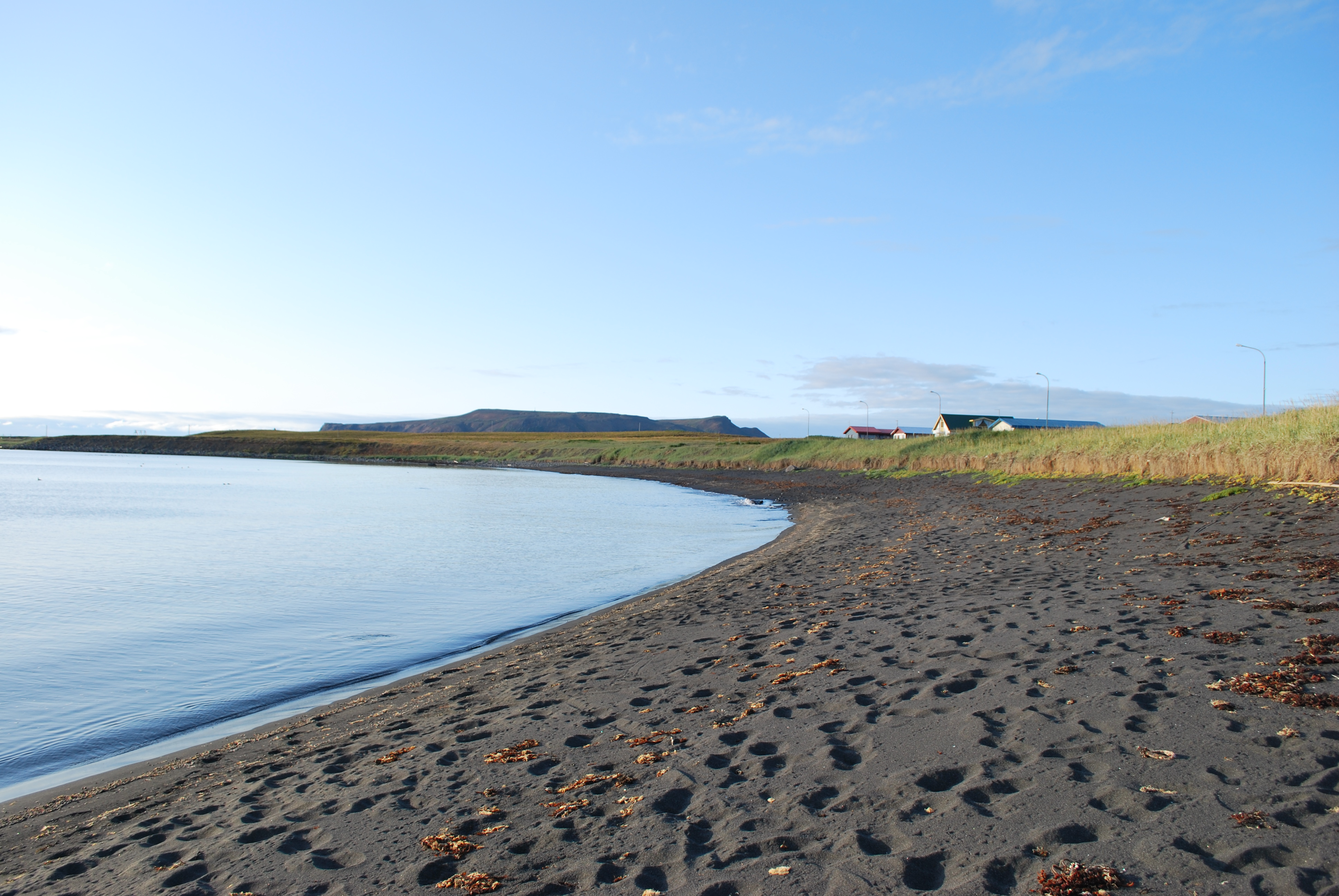 Kópasker village in northeast part of Iceland. Beach